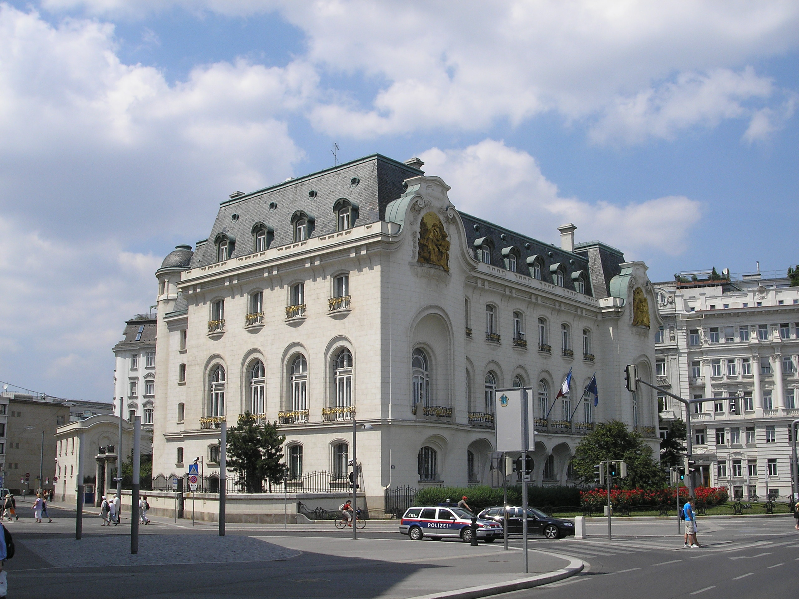 French Embassy in Vienna, built around the early 20th century.